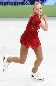 Maria Sergejeva at the 2010 Winter Olympics.